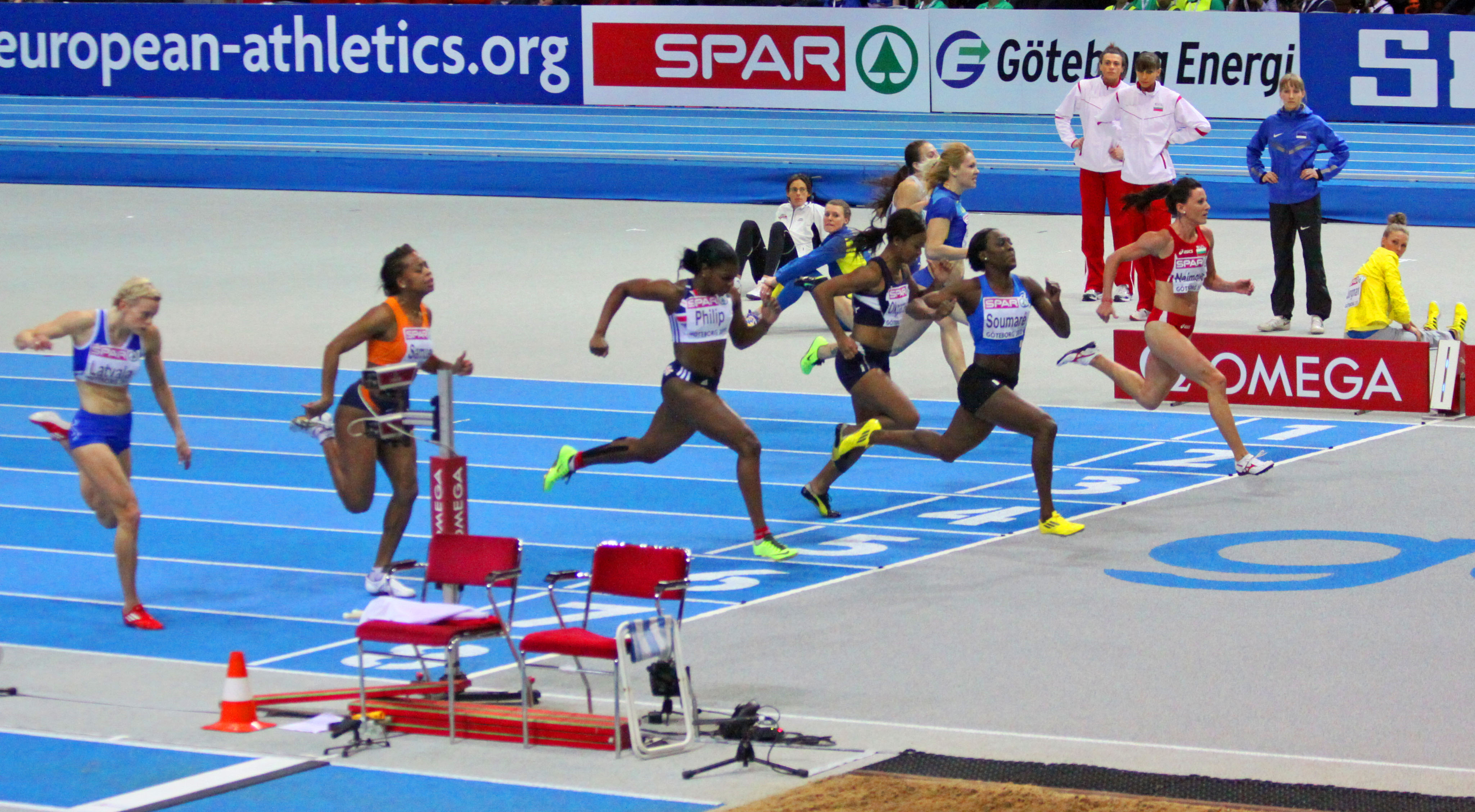 The second semifinal of the women's 60 metres at the 2013 European Athletics Indoor Championships.